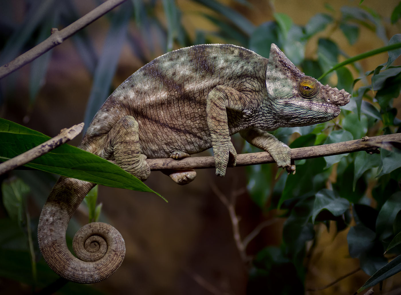 The largest chameleon in the world, Parson’s chameleon belongs to a unique family of lizards exhibiting some bizarre traits. With a large, triangular head, conical, independently-moving eyes, laterally compressed body, and fused toes, the chameleon has looks as strange as its behaviour. All chameleon species are capable of colour change, which is not only for camouflage as is generally assumed. It may also be a response to other chameleons (when fighting or mating), temperature, as well as the surroundings. Particularly comical when walking, they have an odd gait, moving with diagonally opposite limbs. The toes are fused into two opposable pads, giving mitten-like feet that are efficient for gripping branches. The tongue may be up to twice the length of the body, and has a bulbous sticky tip which is used to catch its prey. This enormous chameleon has ridges running from above the eyes to the nose forming two warty horns. Its colour varies from green, turquoise and yellow, and juveniles may have an orange sheen. The lips and eyelids of adults are sometimes yellow or orange and there may be pale yellow or white spots on the flanks. There are two subspecies of Parson’s chameleon: Calumma parsonii cristifer reaches just 47 cm, has a small dorsal crest, and is bluer in colour whereas Calumma parsonii parsonii is the larger of the two, reaching up to 68 cm, and has no crests at all. Also known as Parson’s giant chameleon. Synonyms Chamaeleo madecasseus. Size Length: 47 – 68 cm Take a look at my 2nd Flickr account - Steve Wilson - all the photo's